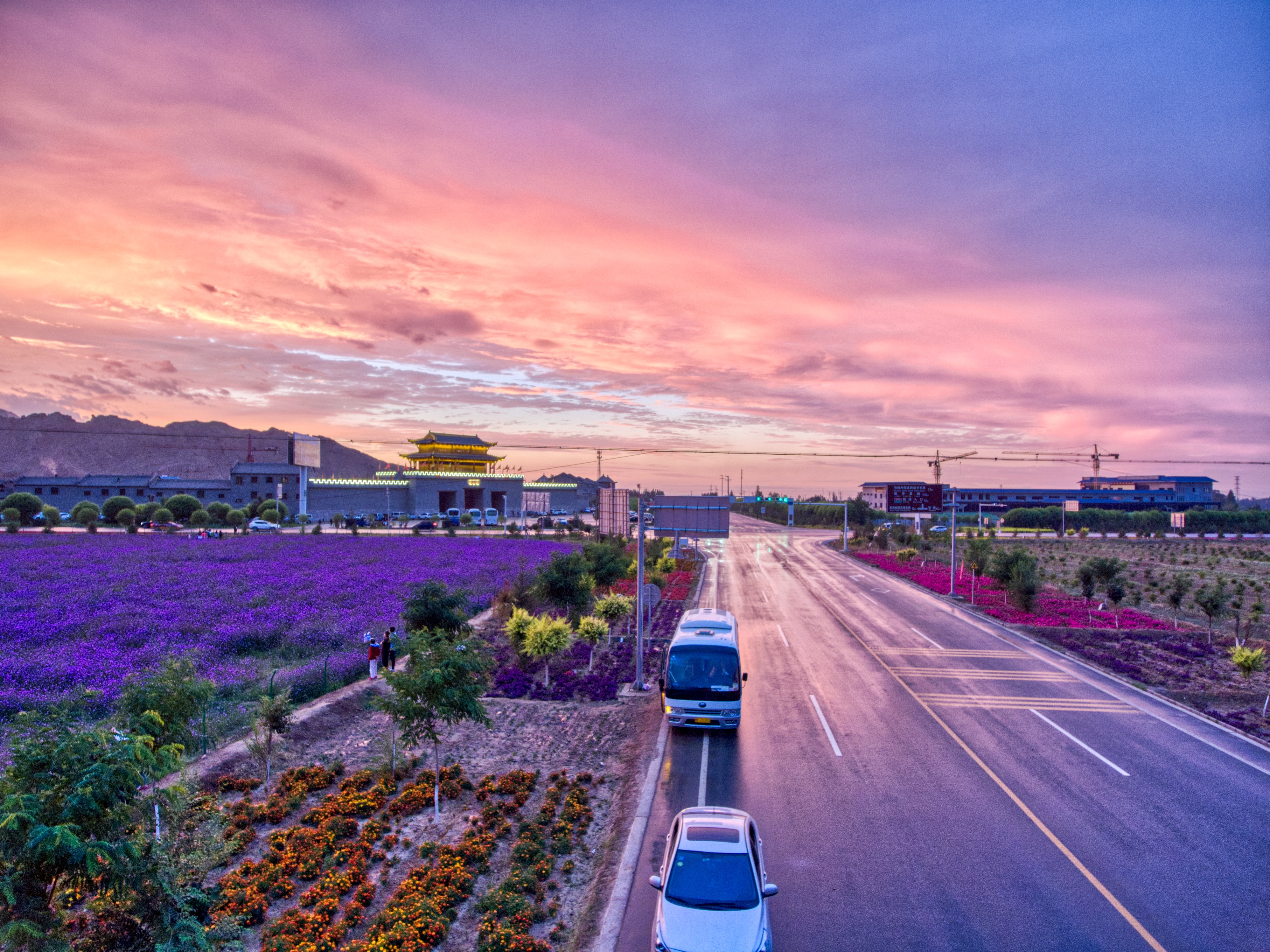 lavender and afterglow in zhangye